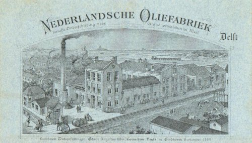 Advertising stickers of Nederlandschen Oliefabriek Delft, owner Jacques van Marken, on the occasion of an exhibition in 1886